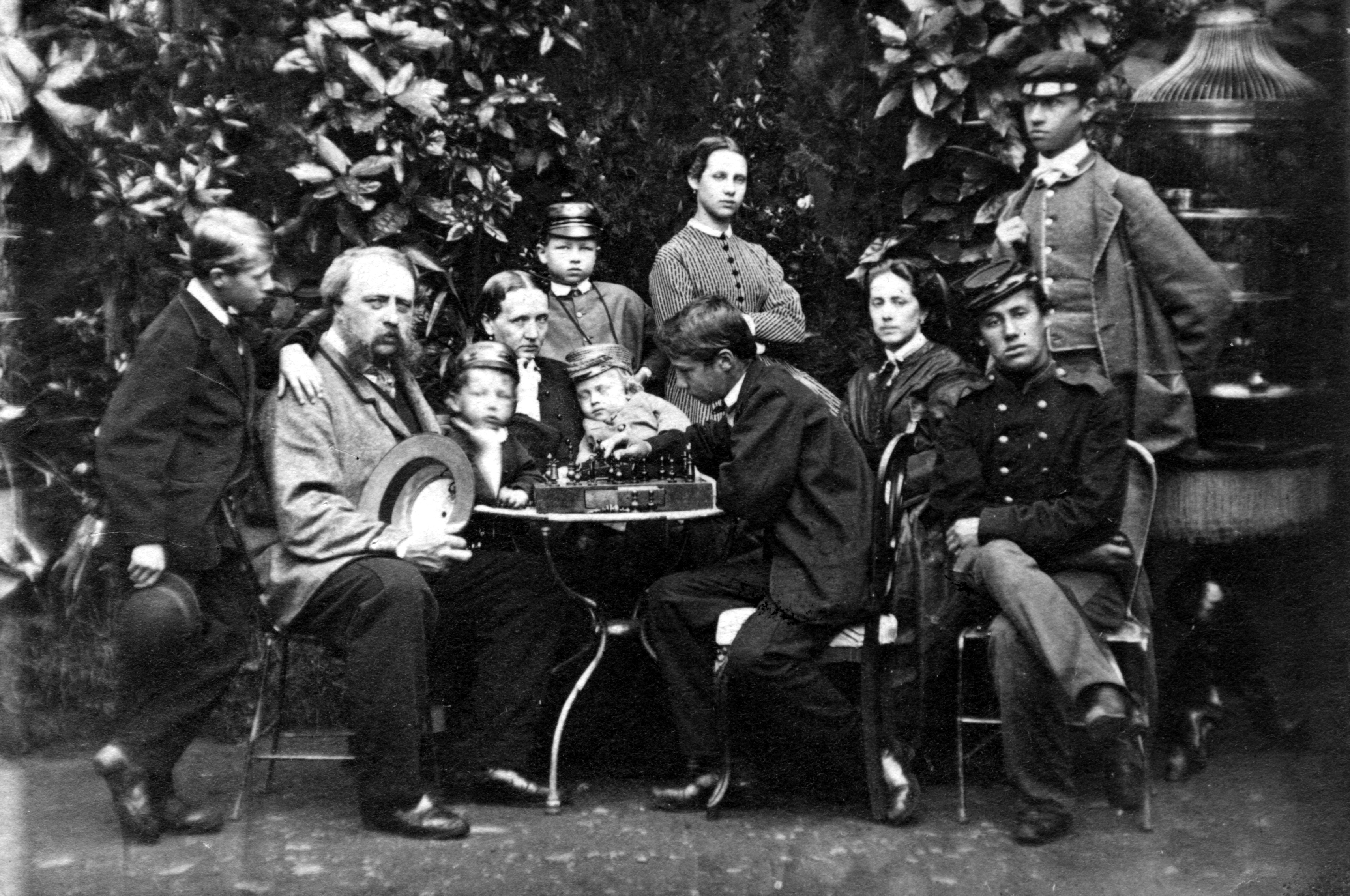 Industrialist Wilhelm von Nottbeck with his family: Wilhelm Frederik (1850–1928), Wilhelm von Nottbeck (1816–1890), Peter Burchard (1858–1899), wife Marie Elise Constance (1824–1888), Edvard Alexsander (1853–1939), Alexander Johan Ferdinand (1861–1900), Carl Samuel (1848-1904) and four unknown persons.